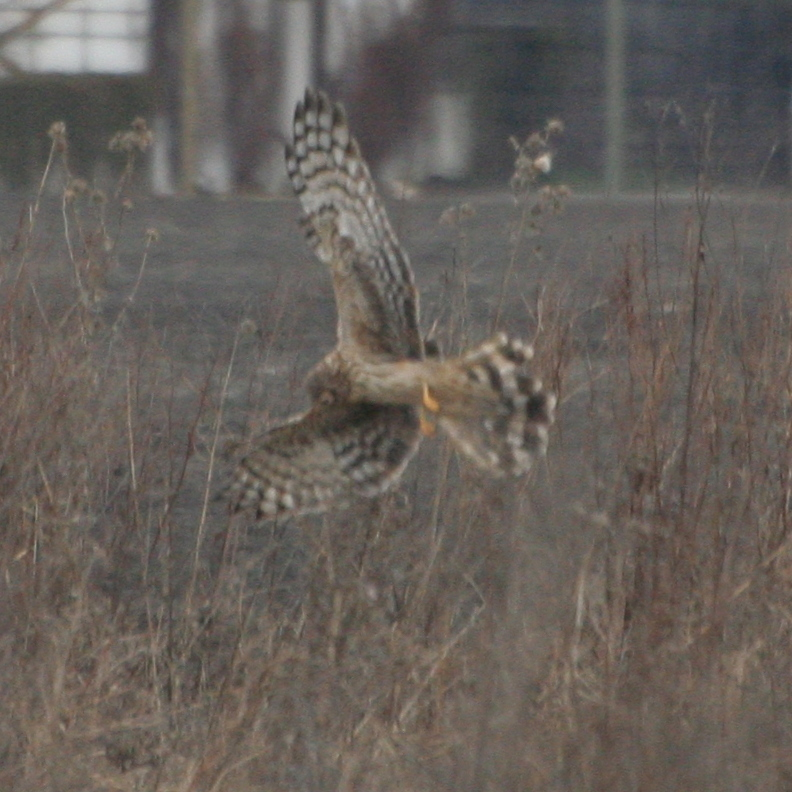 Hen harrier near Puchheim in Bavaria, flying over a small uncultivated area amid largely arable farmland